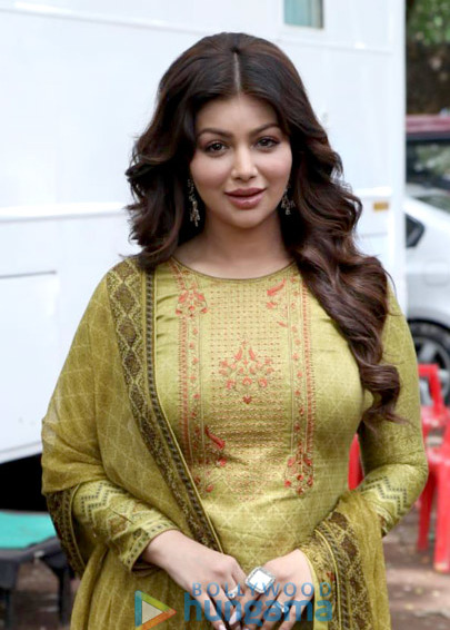 Ayesha Takia Azmi snapped on location for a photoshoot at Aarey Colony